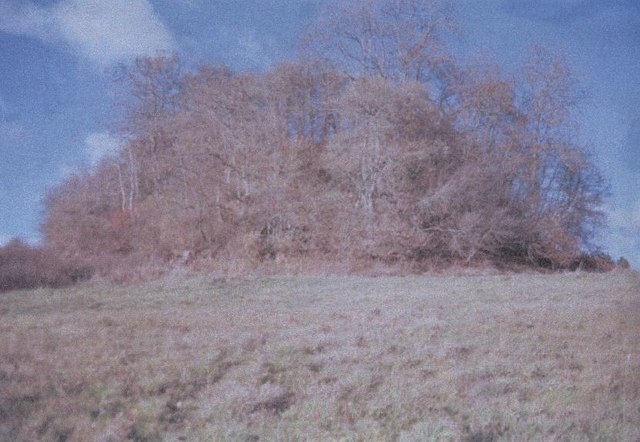 Ewyas Harold Castle The photograph shows the motte of Ewyas Harold castle. Quoting from the excellent leaflet available from the bungalow next to the castle: "1048 Osborn Pentecost built the first castle of wood. Norman favourites were then allowed into the country by Edward the Confessor. They used the same site to construct a motte and bailey fortification. It was one of the first castles to be built to a Norman design before the Conquest."